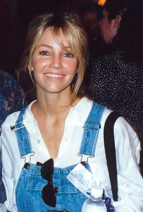 Heather Locklear. Photo taken at the 45th Emmy Awards 9/19/93- Permission granted to copy, publish or post but please credit "photo by Alan Light" if you canHeather Locklear